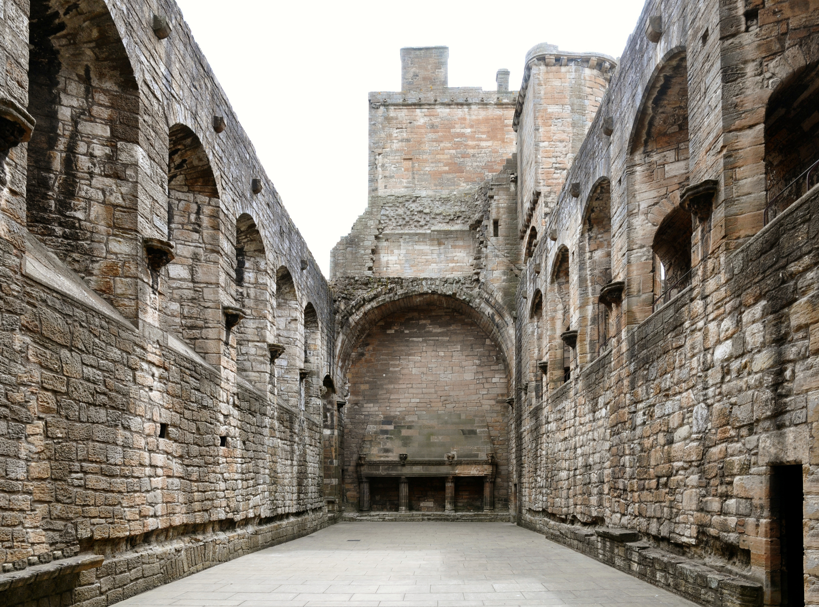 Ruins of Linlithgow Palace, Great Hall or Parliament House, in the ancient town of Linlithgow, west of Edinburgh, Scotland (subversion with corrected perspective)